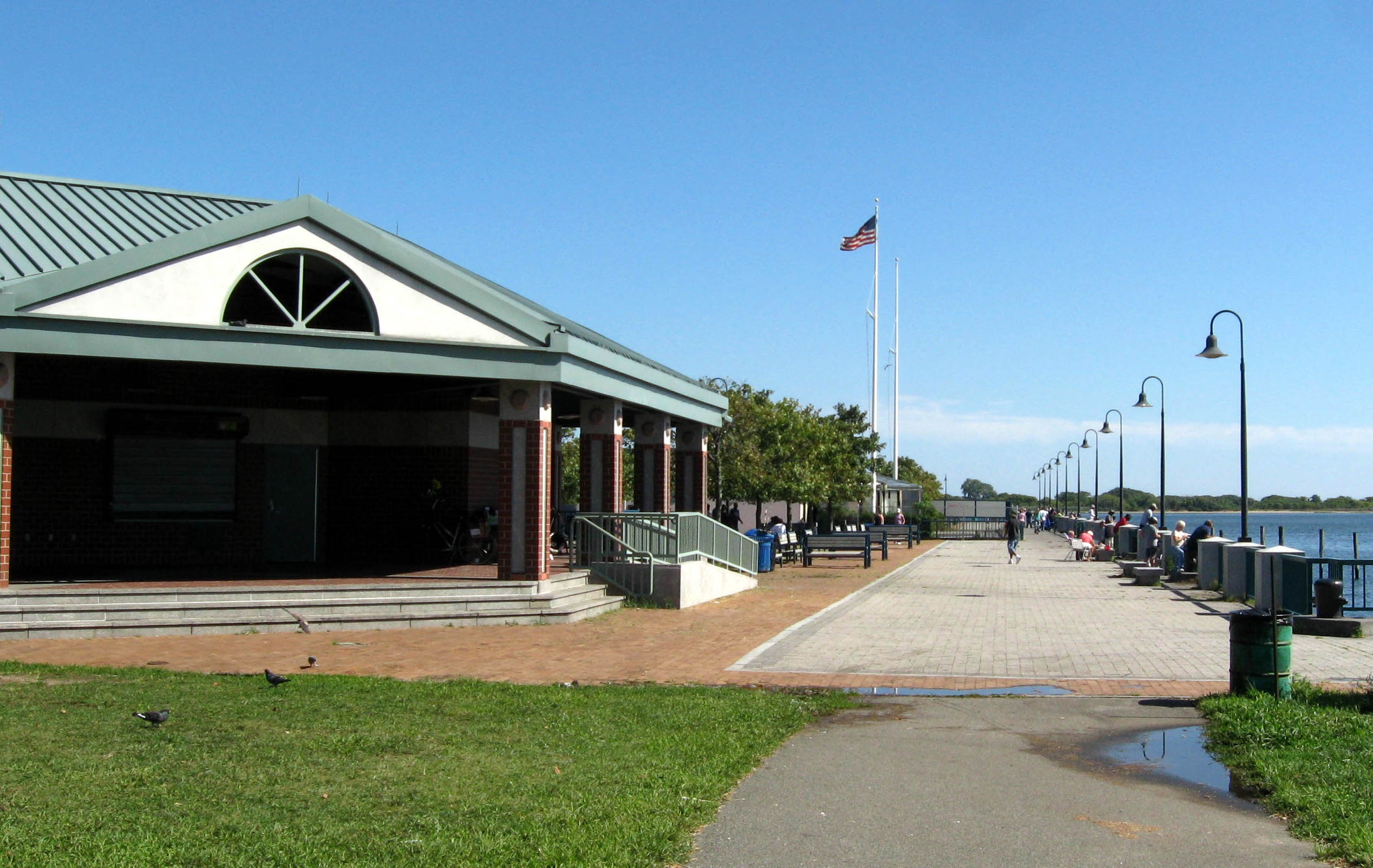 looking southeast along Canarsie, Brooklyn Pier into Jamaica Bay on a sunny early afternoon